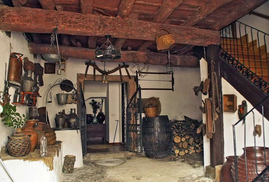 Casa típica